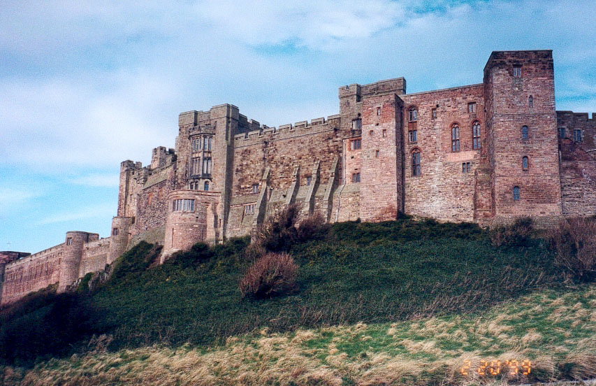 Bamburgh Castle, Northumberland